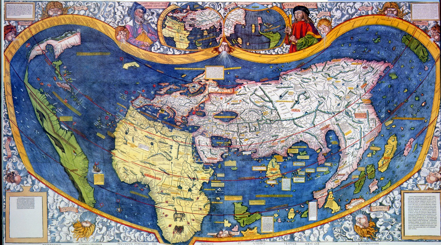 Martin Waldseemüller's world map, including inset maps of Ptolemy's Old World and Amerigo Vespucci's account of the New World. 1507